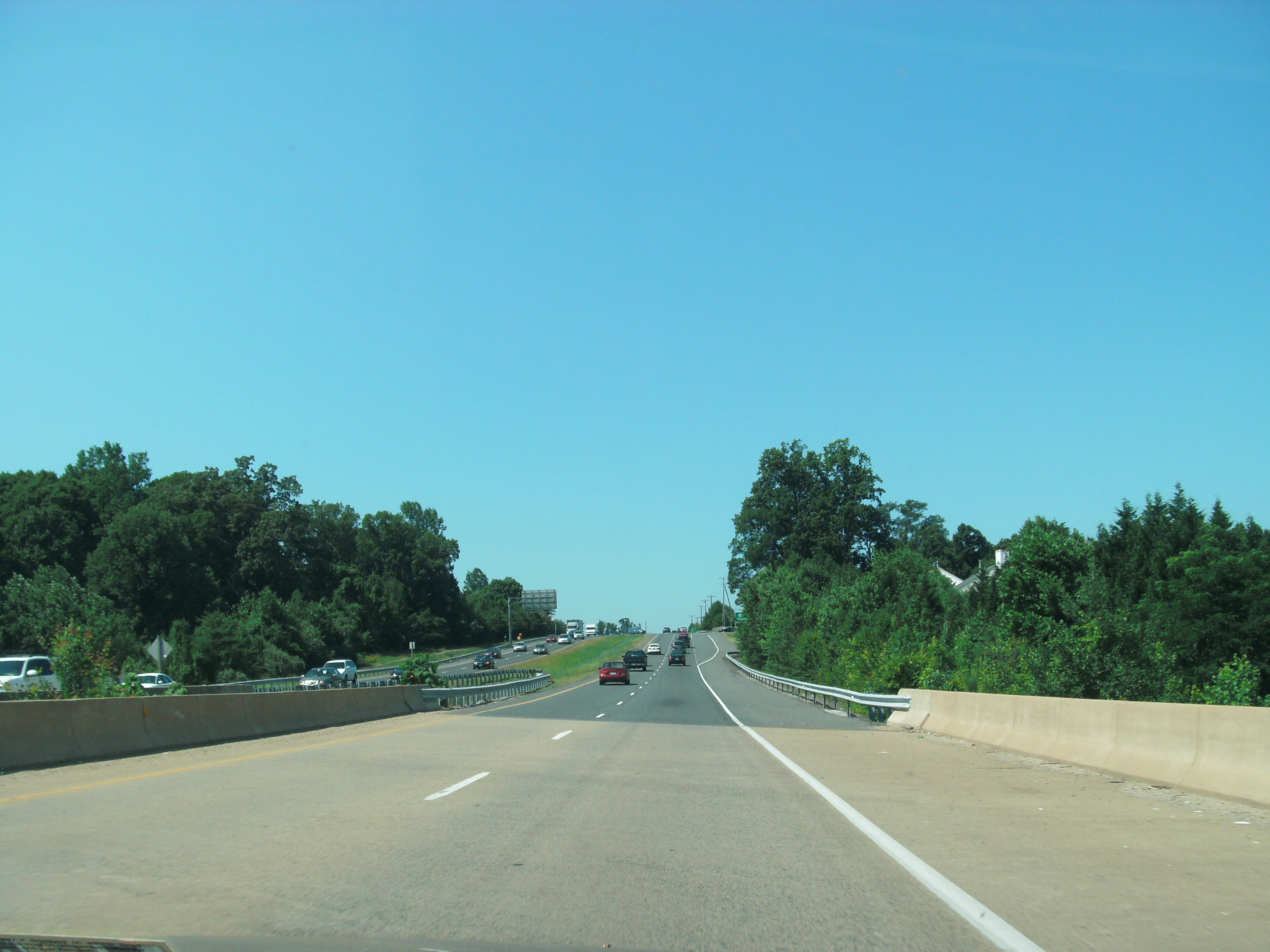 Fairfax County Parkway, towards the end